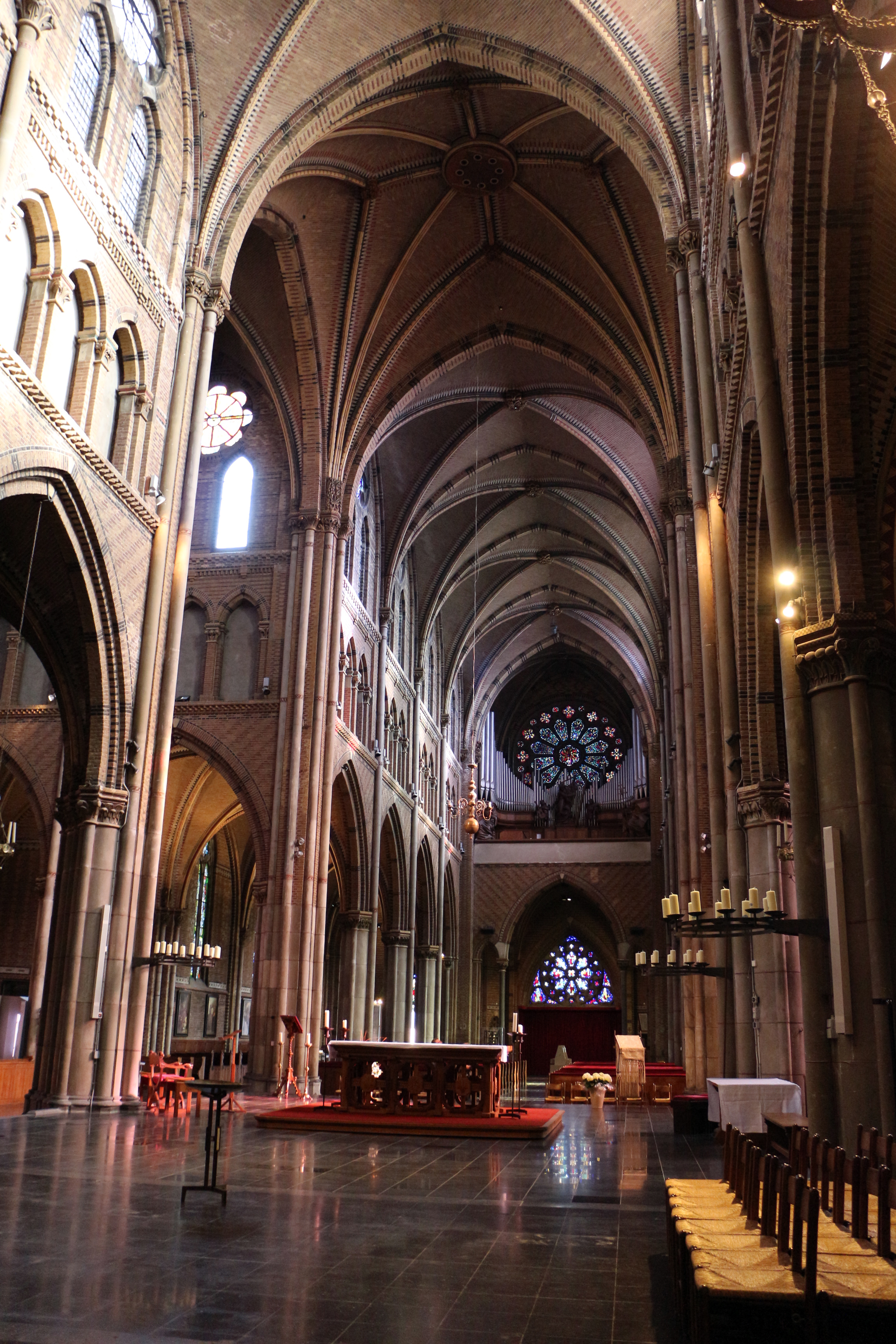 Sint-Catharinakerk (Eindhoven)